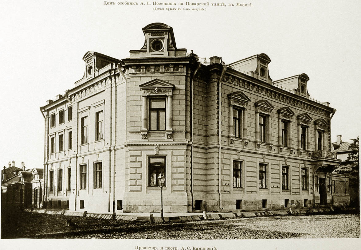 Private house in Povarskaya Street, Moscow, corner of Borisoglebsky Lane.